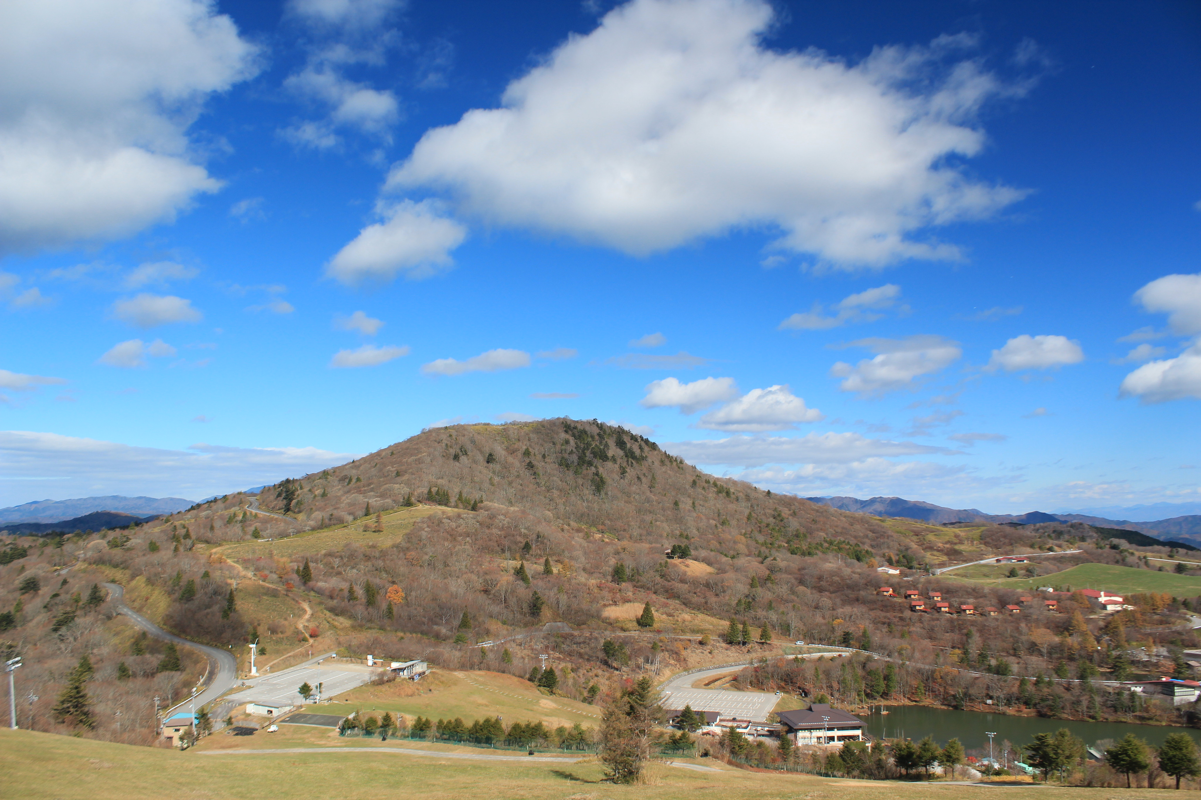 Mount Chausu from Mount Hagitaro in Aichi prefecture, Japan.